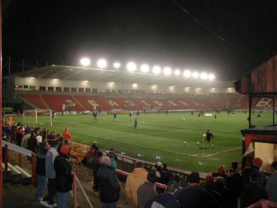 Bloomfeildroad football stadium in England.